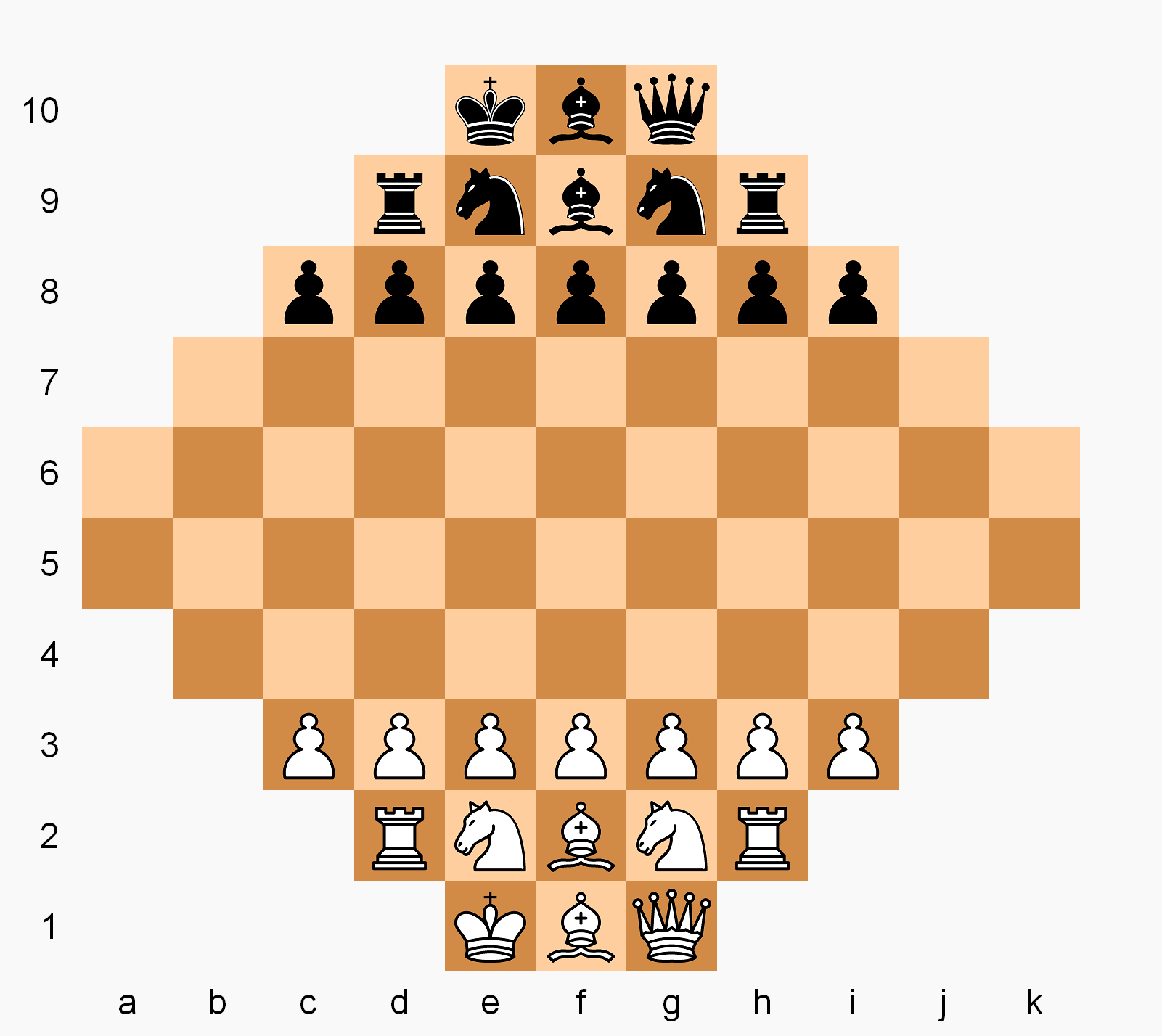 Balbo's Game, gameboard and starting setup. Using the great free-use chess icons fashioned by David Benbennick (User:Dbenbenn). All done in MSPAINT.